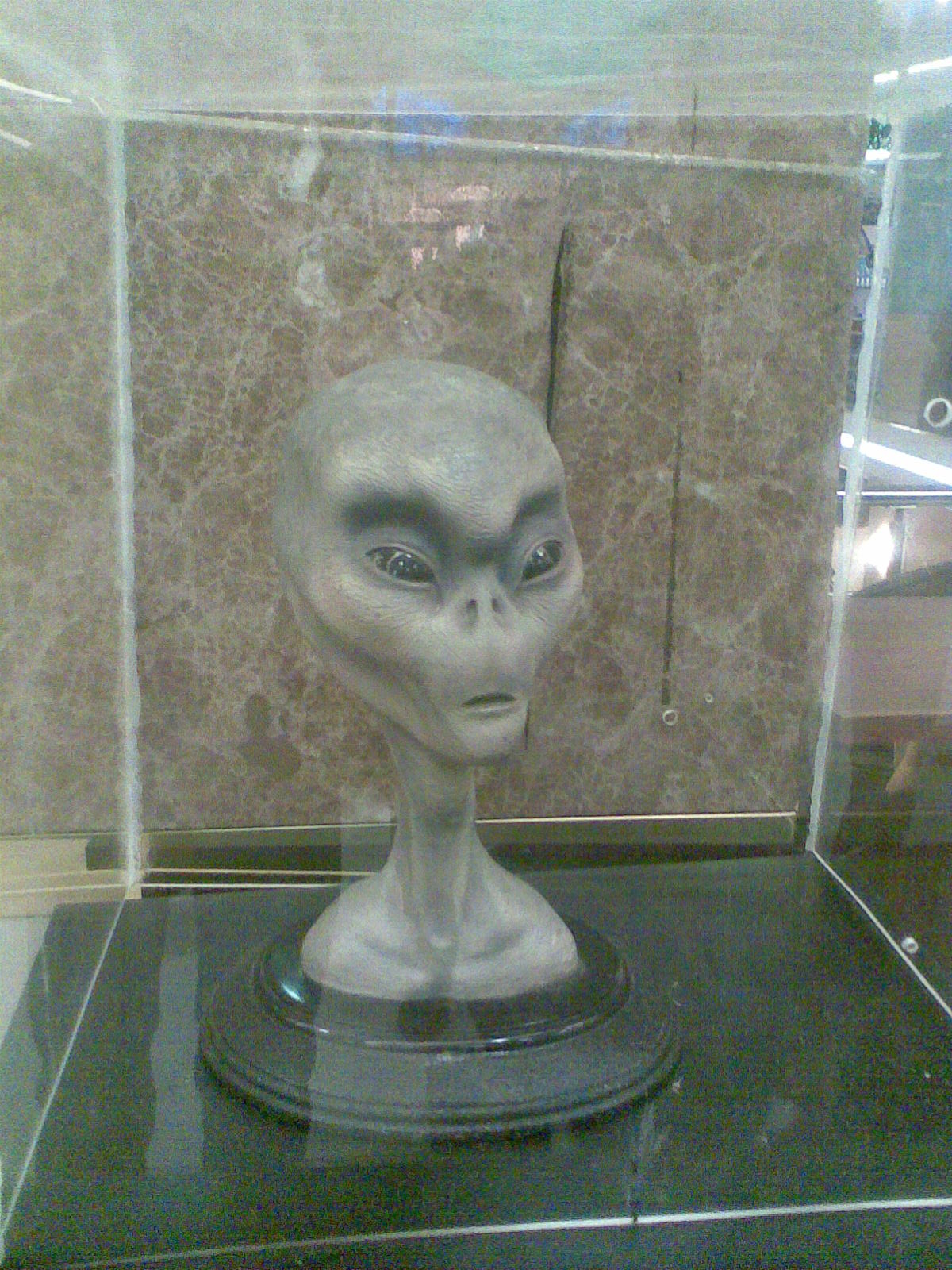 ufo museum in diyarbakir, 2009